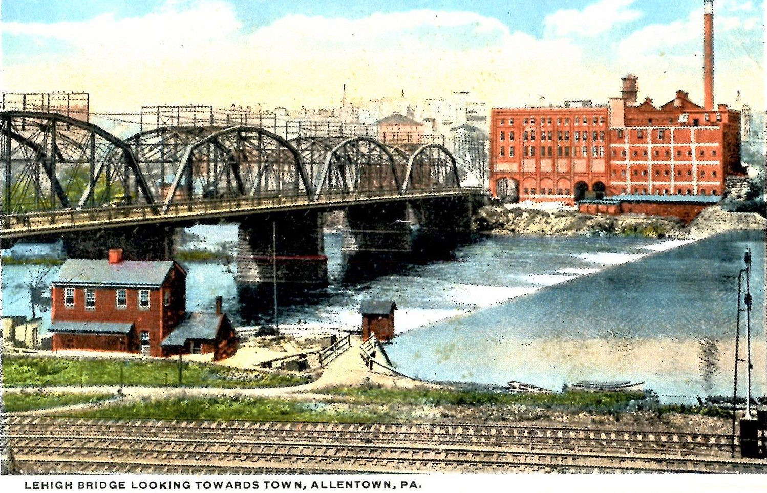 Hamilton Street Bridge looking west over dam and A and B Meats